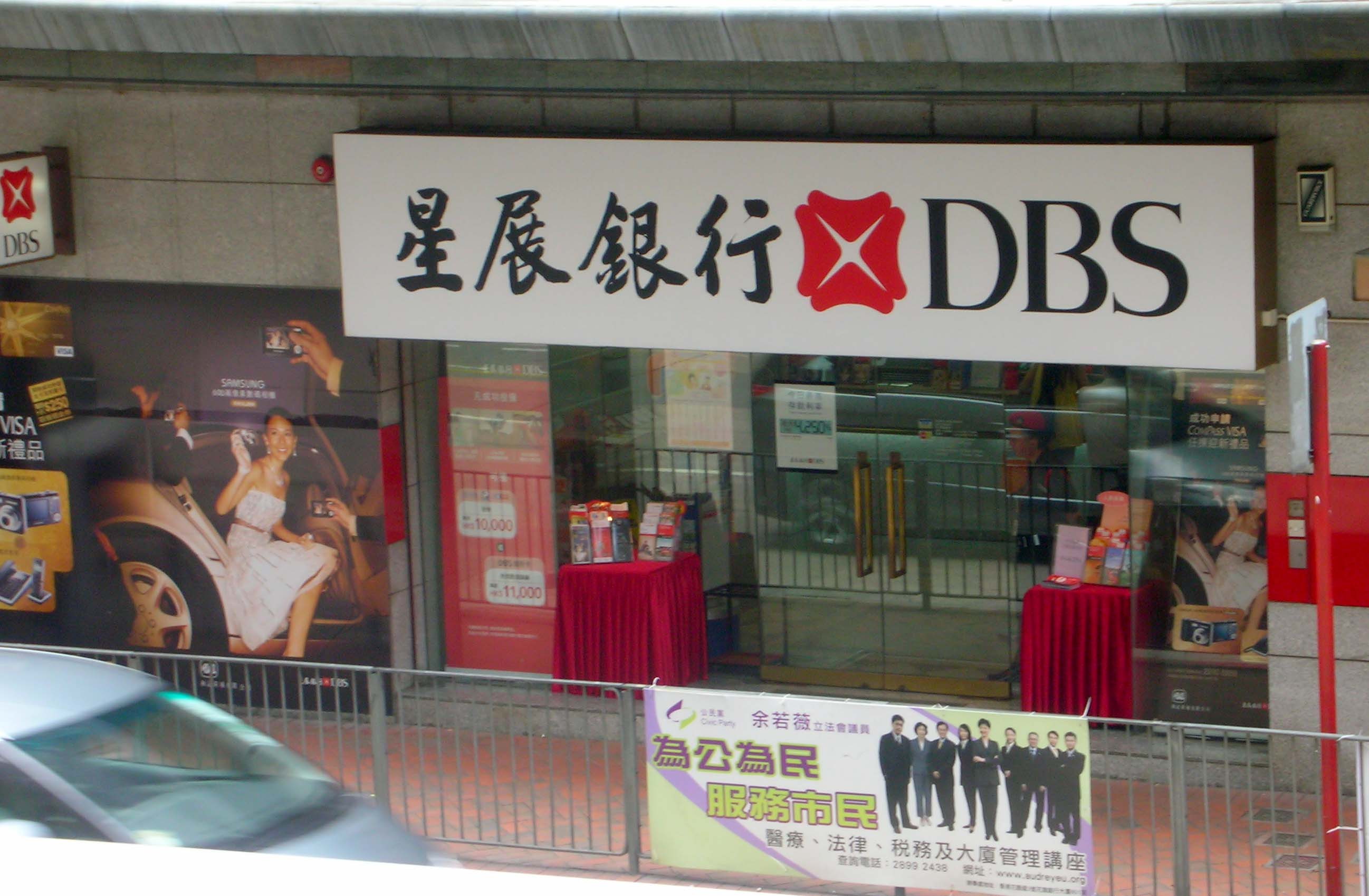 A branch of DBS, located at Wan Chai, Hong Kong